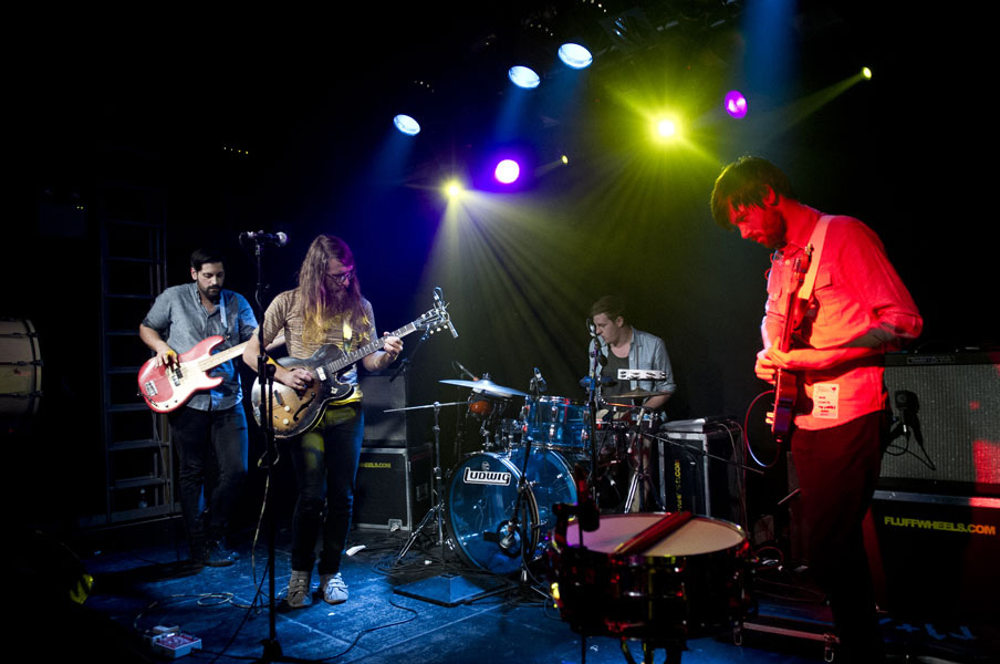 Maps-&-Atlases Maps & Atlases are an indie rock group from Chicago, Illinois USA. This is a live performance at The Garage, Islington in London, UK on 17th April 2012. The band members are Shiraz Dada (bass), Chris Hainey (drums), Dave Davison (guitar/vocals), and Erin Elders (guitar).